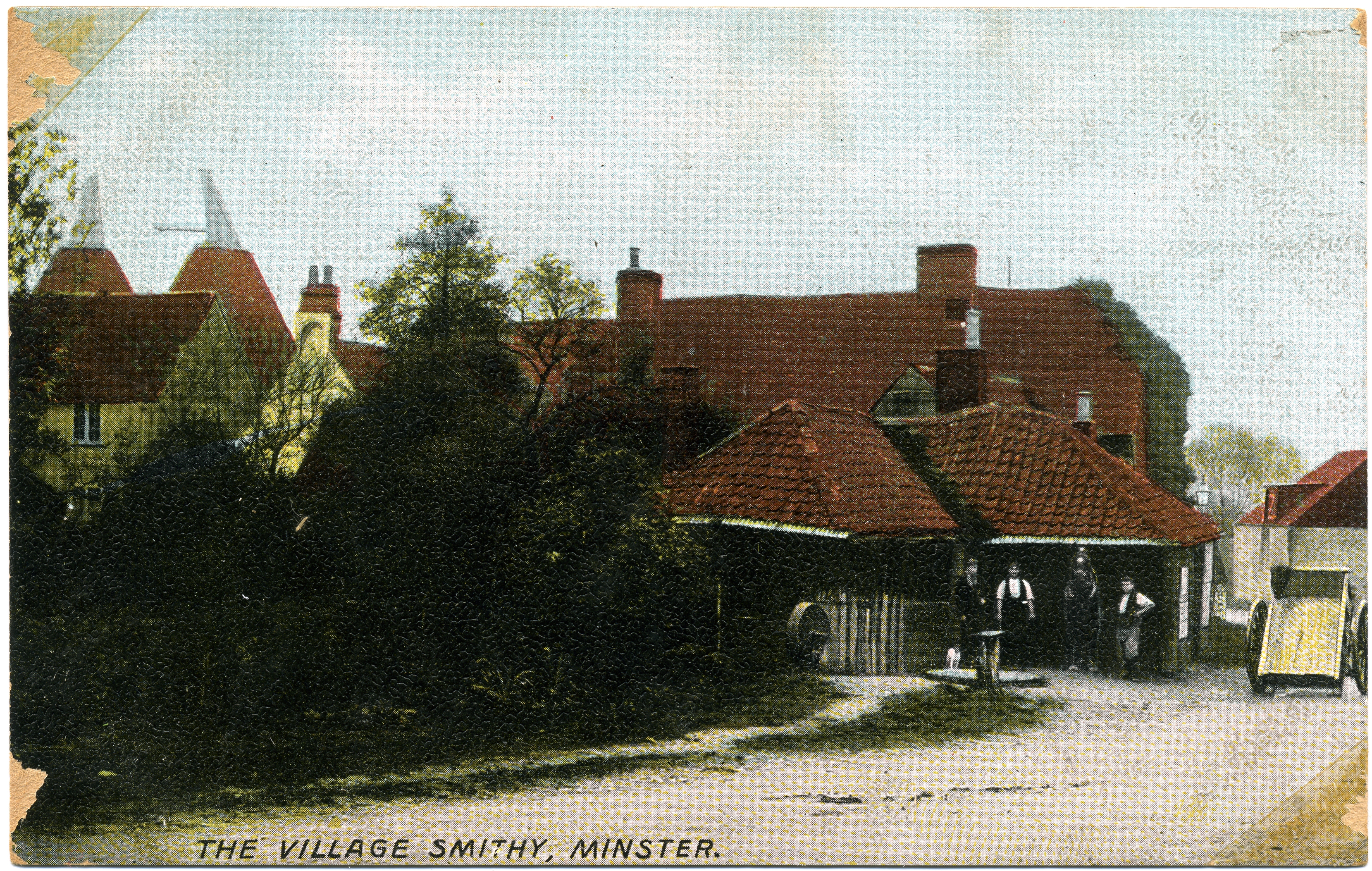 Hand-tinted postcard photo of the smithy (forge) at Minster, Thanet, Kent, England. The photographer was Fred C. Palmer of Tower Studio, Herne Bay, Kent, who is believed to have died 1936-1939. The postcard is believed to be dated 1903-1904 because Palmer moved to Herne Bay in 1903, and because it's printed in Saxony it must be dated before 1914. Also, another card by him in the same style is postmarked 1904. File:Fred C Palmer 008.jpg and File:Fred C Palmer Minster 128.jpg are similarly coloured postcards of Minster by Fred C. Palmer; the three are possibly part of a set. This scene is tidily arranged and posed to show off the smithy's trade. You can just make out the front of a heavy horse, for shoeing, between the two blacksmiths. The trees have darkened with age, but in front of them, along the side of the roadway, you can just make out the iron machinery and implements waiting for repair. A lot of the work involved fitting the iron tyres round the cartwheels, hence the neat display of a cart on the right. Border The remaining border of this image is important for researchers of this photographer. Some photographers trimmed their images more than others, and Palmer has a reputation for producing smaller postcards than other early 20th century UK photographers. He took his own photos, developed them in-house onto postcard-backed photographic paper and trimmed them himself. It is worth adding that during hand-developing the border is actively masked with equipment which both crops the picture and causes the white frame or border to appear on the paper. This frame is part of the design and is one of the reasons why the quality of Palmer's work is so interesting, and why there is an article and category for him on English Wiki. Researchers need to see exactly where the edge of the postcard is, even though in this case there is no white frame. The edge of the card is the edge of the composition. Thank you for taking the time to read this.